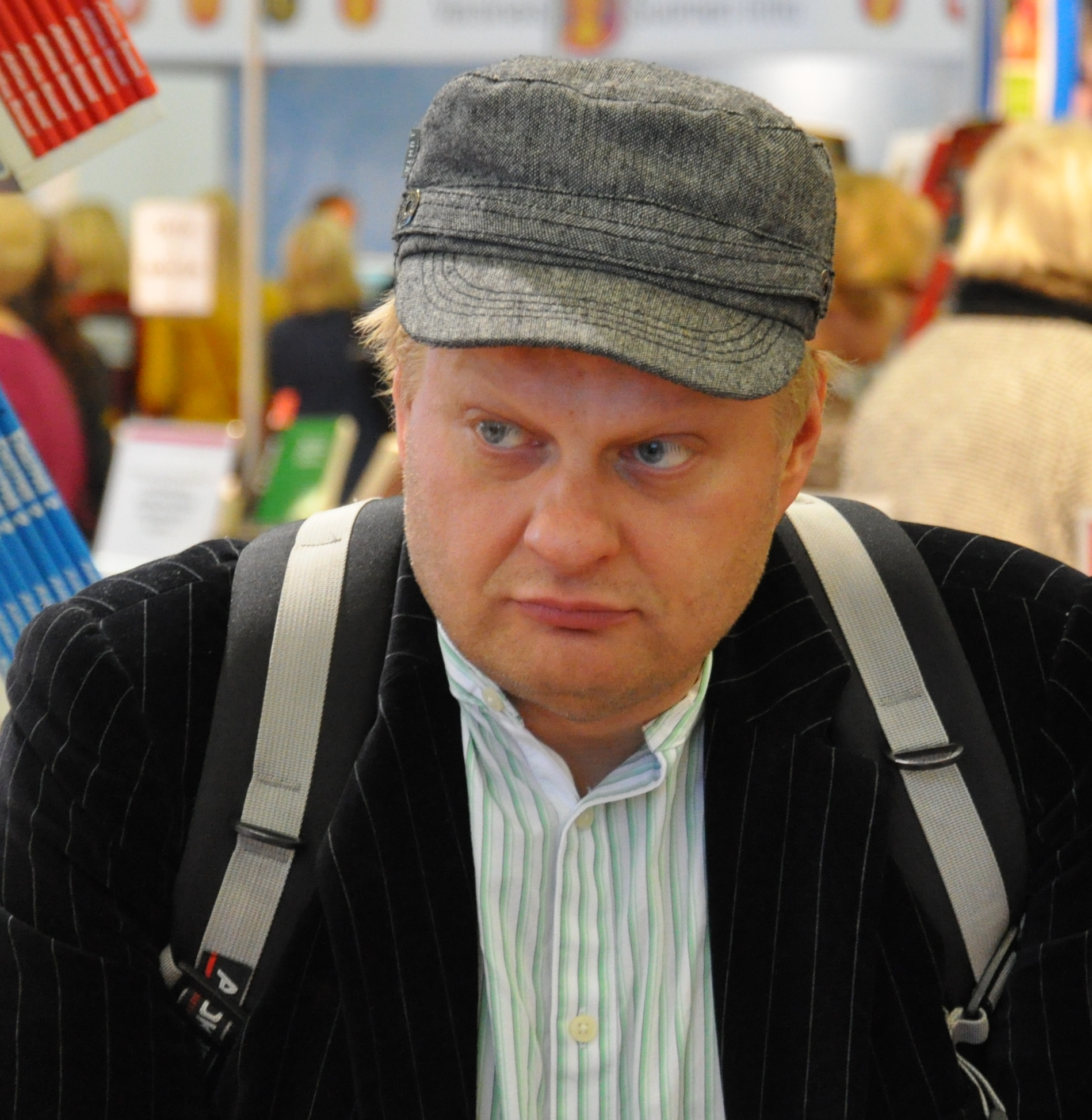 Finnish jazz pianist and composer Iiro Rantala at the Turku Book Fair 2009.